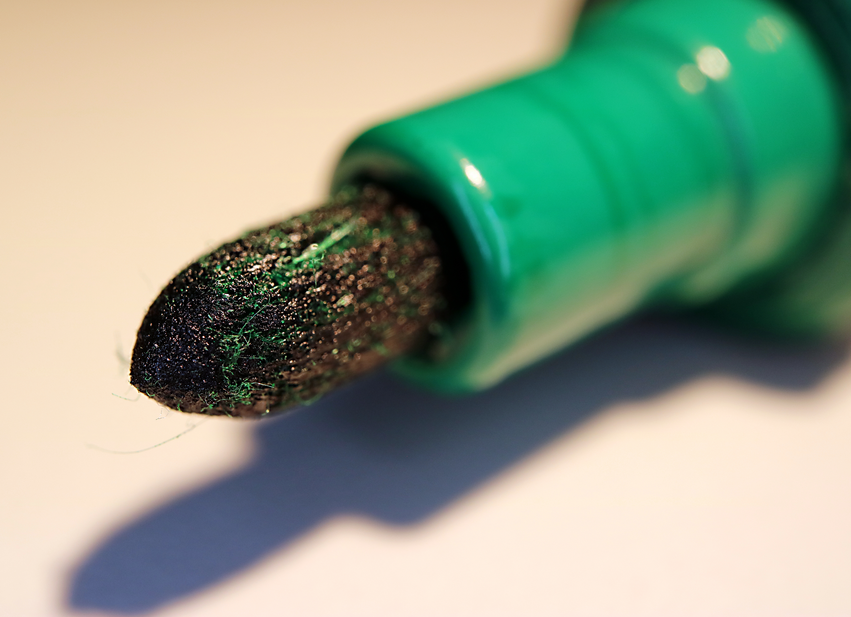 Macro photograph of a green felt tip pen.